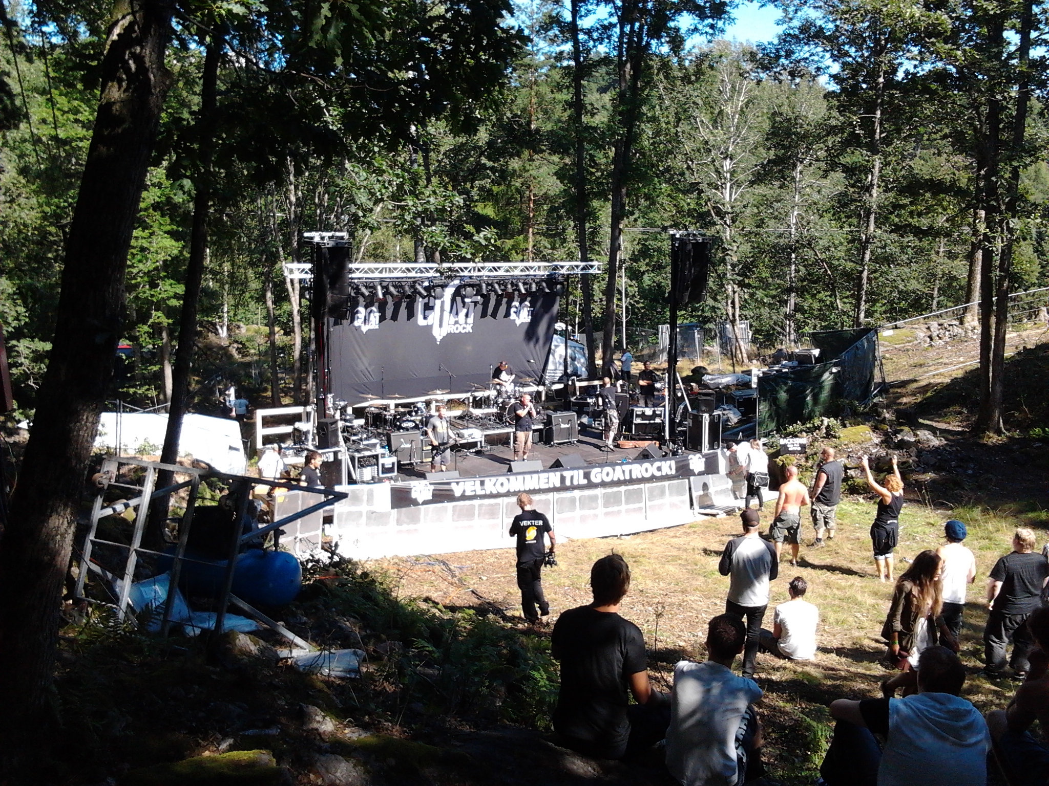 Goat Rock Festival 2012 in Tvedestrand Norway